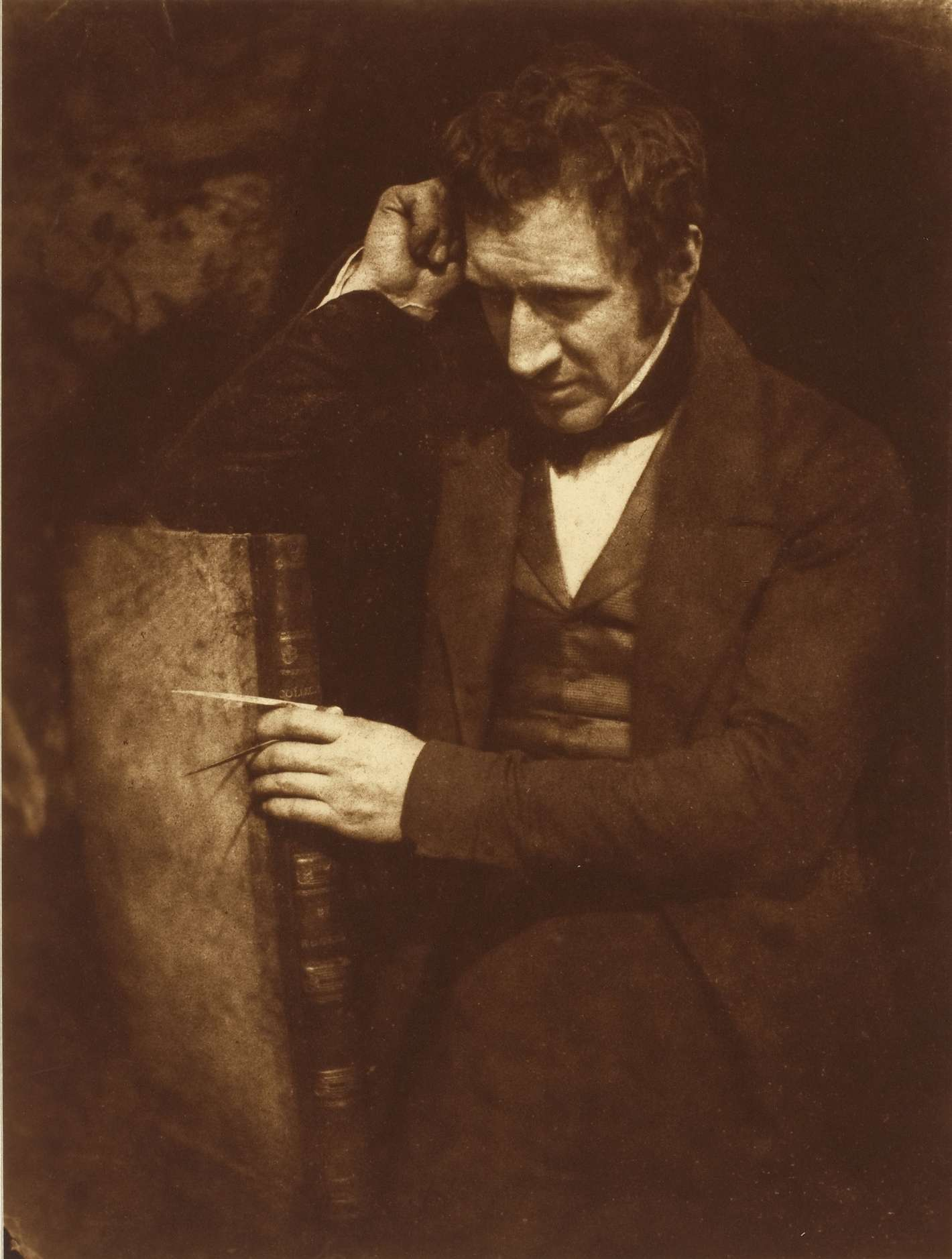 James Nasmyth, 1808 - 1890. Inventor of the steam hammer. This is one of a number of calotypes showing James Nasmyth, the son of the painter Alexander Nasmyth and a close friend of D.O. Hill, in a reflective mood. He was an engineer and invented the steam hammer and pile driver, which revolutionised industry and engineering work, from the docks of Glasgow to Russia and the Nile. He took a keen interest in photography as he considered it 'a delightful means of educating the eye for artistic feeling, as well as educating the hands in delicate manipulation'.